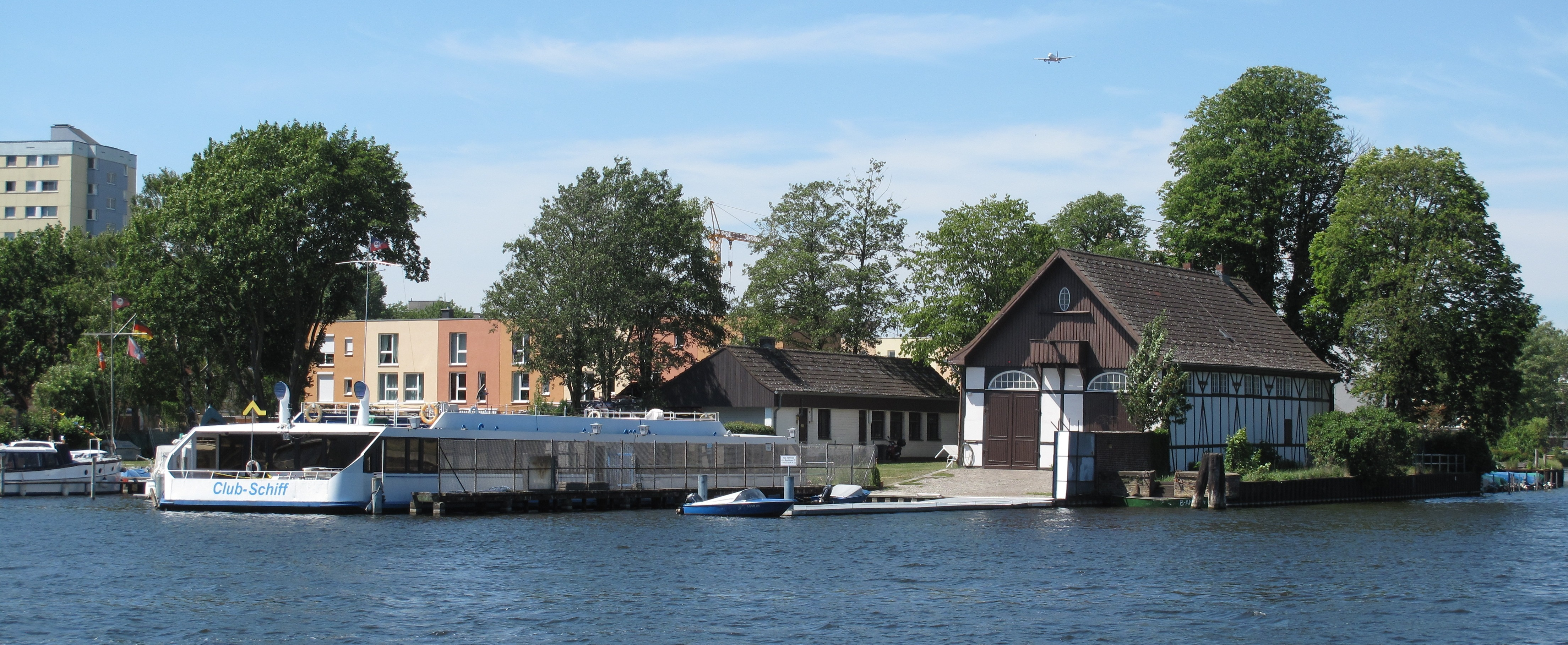 Club ship and northern boathouse of the sports club Wasserfreunde Spandau 04 at the river Havel in Berlin, Borough Spandau, locality Hakenfelde.